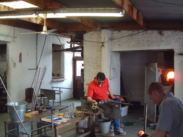 Glass-blowing at Jerpoint Glass. This renowned, but small factory is south-east of Stoneyford village, Co Kilkenny. The business was established by Keith Leadbetter in 1979.